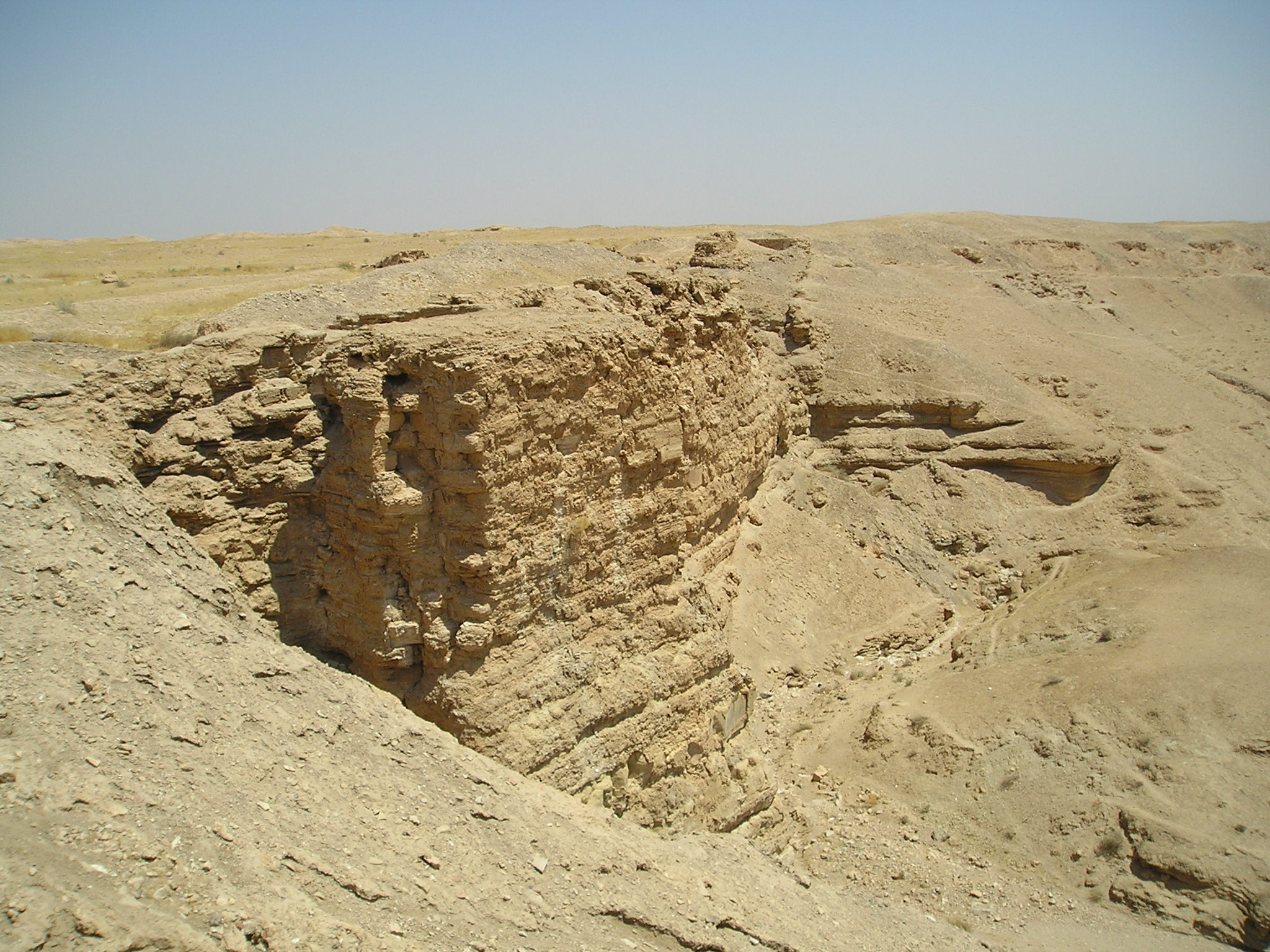 Dura - Europos, Syria - a sothern wadi (ravine) protecting the city